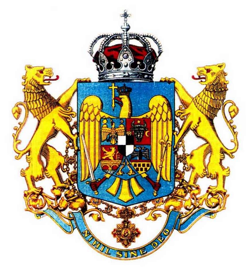 Coat of Arms of The Kingdom of Romania; the middle version, used mostly by the Romanian Army and Romanian authorities.